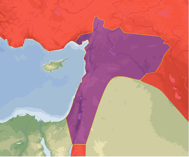 approximation of the 'average' borders of Ottoman Syria based on these maps [1] , [2] and other written descriptions.